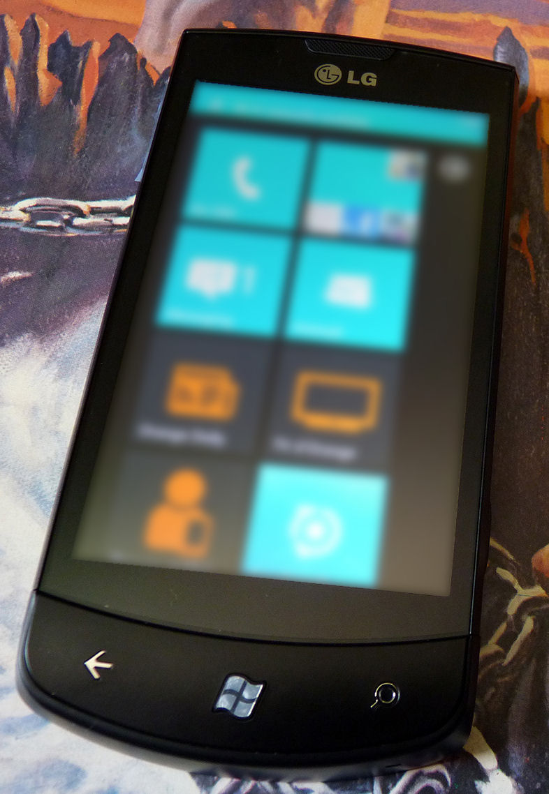 A French LG Optimus 7 with Windows Phone 7 OS.